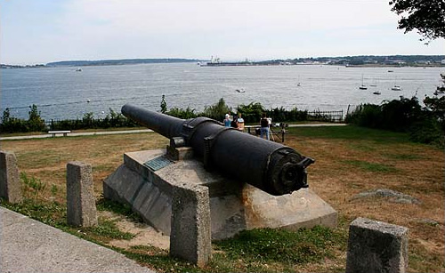 A gun recovered from the USS Maine, which was sunk in Havana Harbor, Cuba February 15, 1898. The gun is now located at Fort Allen Park on the Eastern Promenade of Portland, Maine. Image made 2005 by Robert Swanson